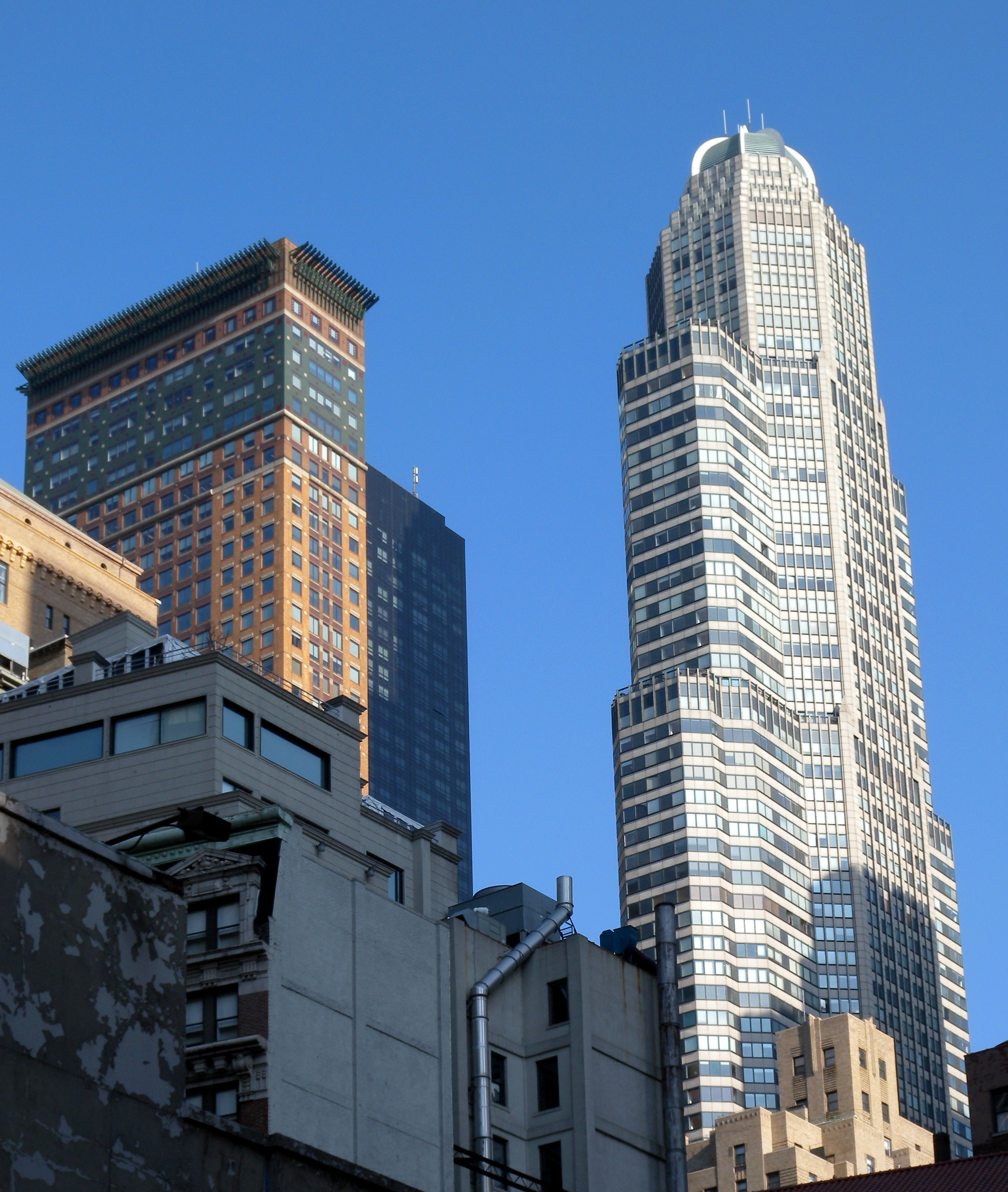 Looking east from 54th Street at (right to left) CitySpire Center, Metropolitan Tower, and Carnegie Hall Tower on a sunny November afternoon. EXIF says September due to photographer's error.